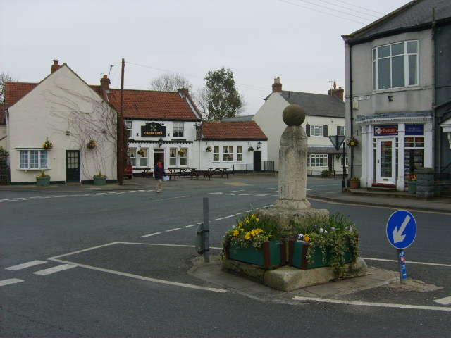 The junction of York Street and Church Street, Dunnington, North Yorkshire. Centre right is the base and truncated shaft of a former Medieval stone cross, now topped by a ball finial.